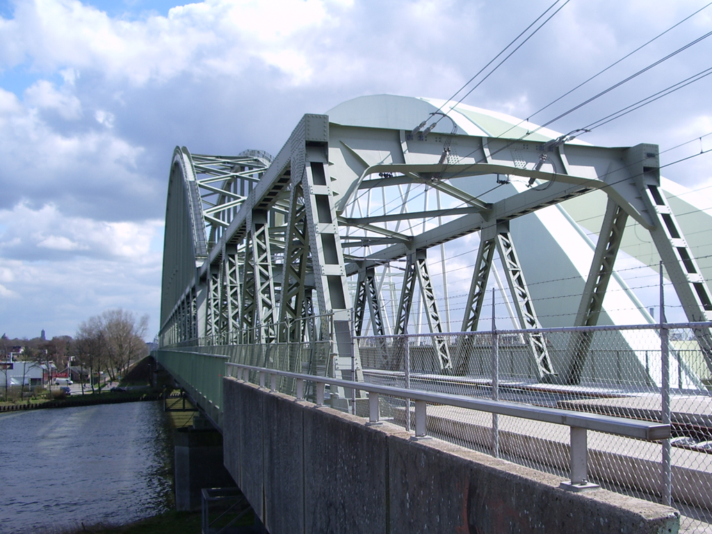 Demka railwaybridge near Utrecht, the Netherlands. April 2006.